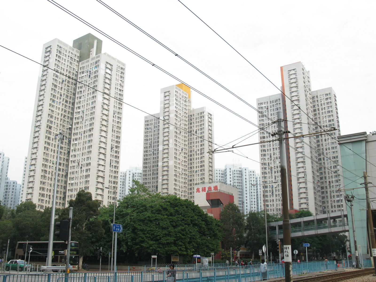 Siu Hei Court, Tuen Mun